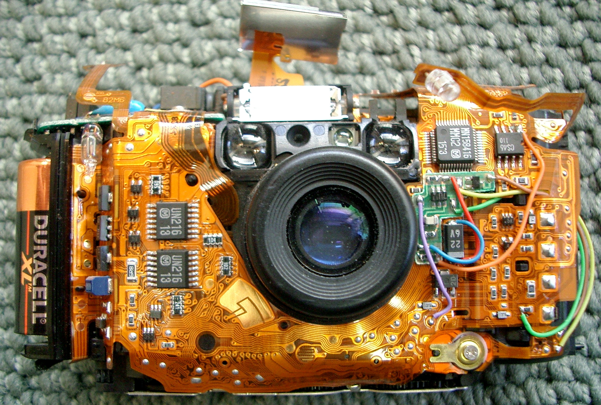 Olympus Stylus camera with skins removed, showing flexible circuit assembly. Part of a study in nude photography.